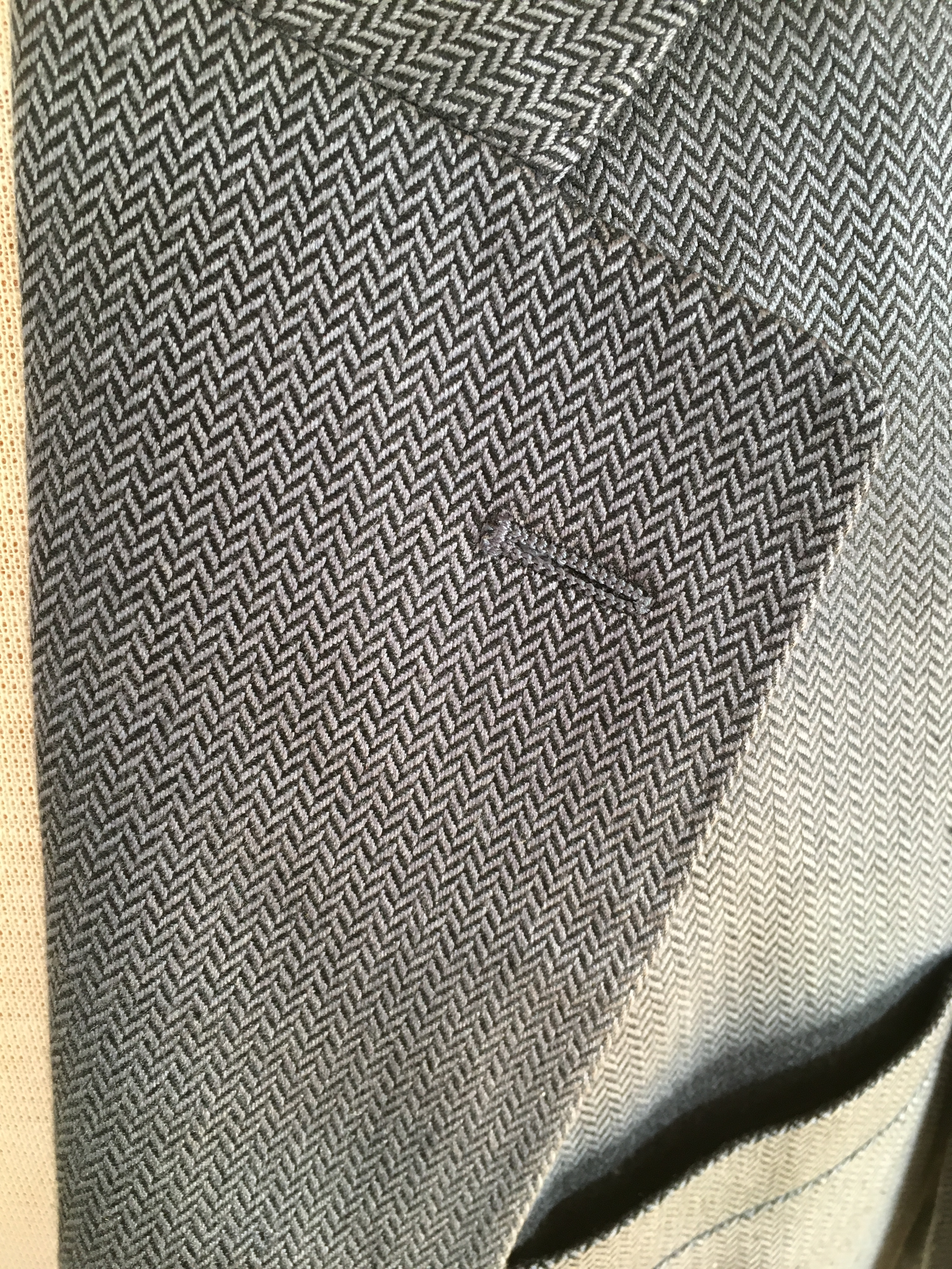 Herringbone fabric from Scabal.